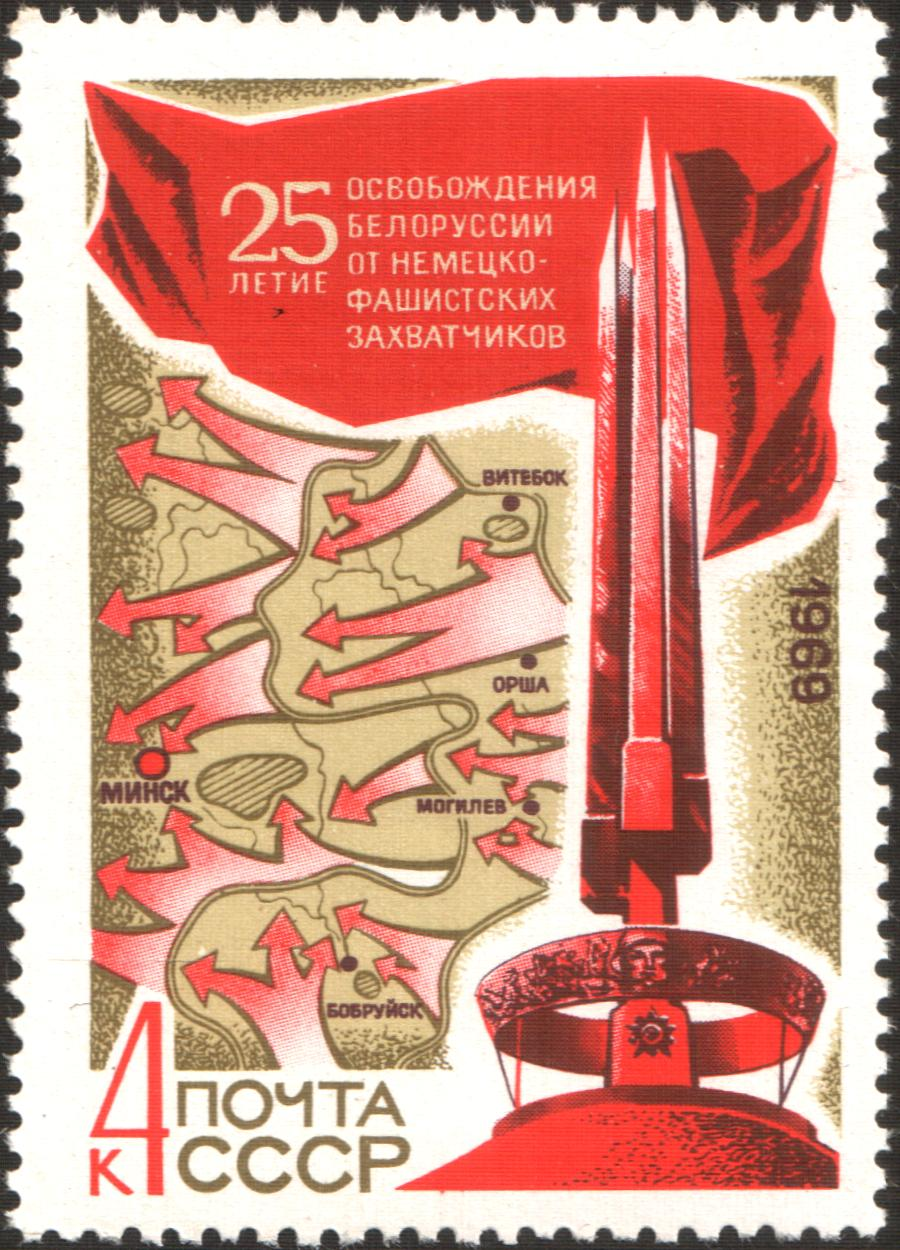 USSR stampː Minsk Mound of Glory and Minsk Offensive Map. Seriesː 25th Anniversary of the Liberation of Byelorussia from Fascism Occupation (1944, July)